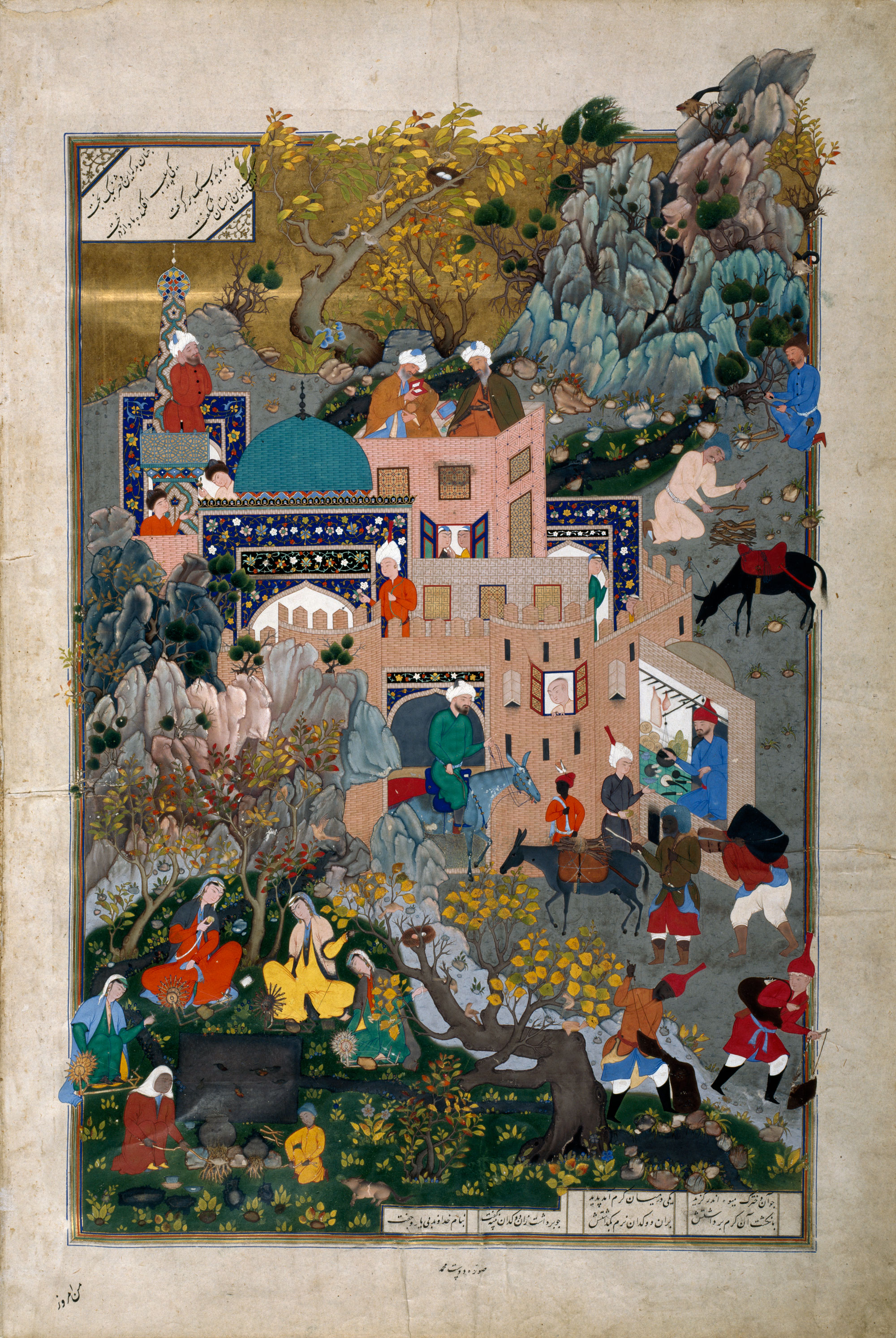 Dust Muhammad, The Story Of Haftvad And The Worm, Folio From The Shahnama Of Shah Tahmasp, Folio 521, verso, ca. 1540